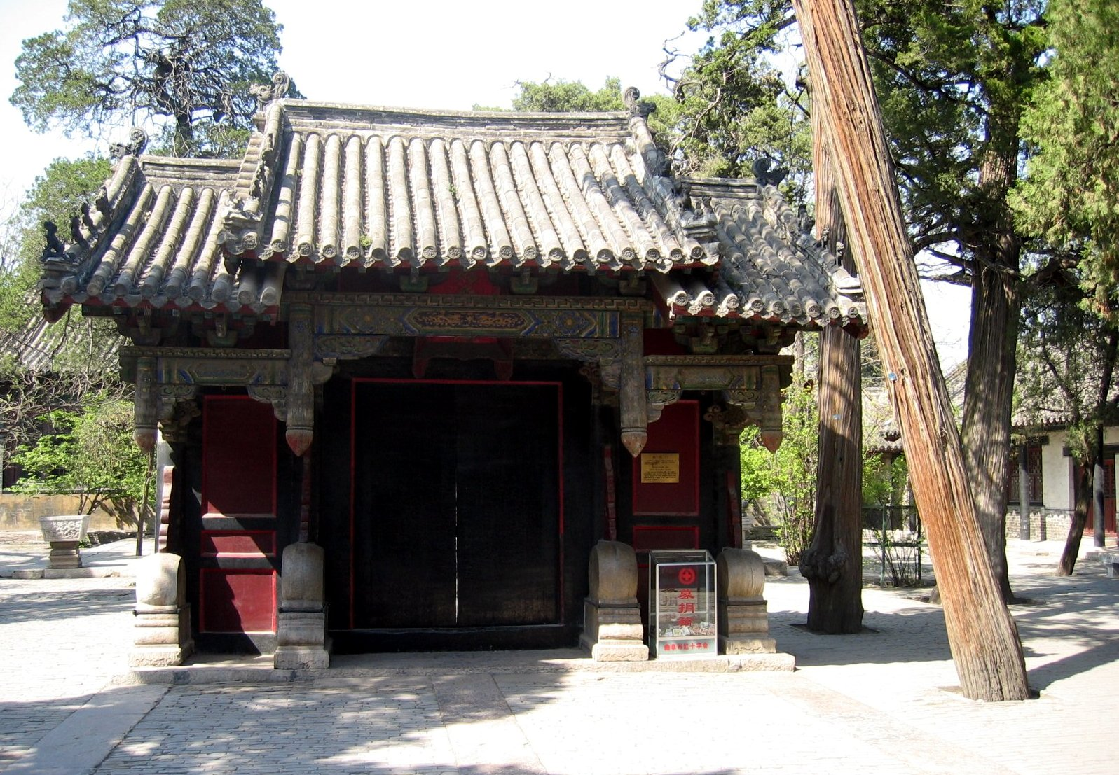 Photograph of the Gate of Double Glory in the Confucius Mansion in Qufu, Shandong, China.